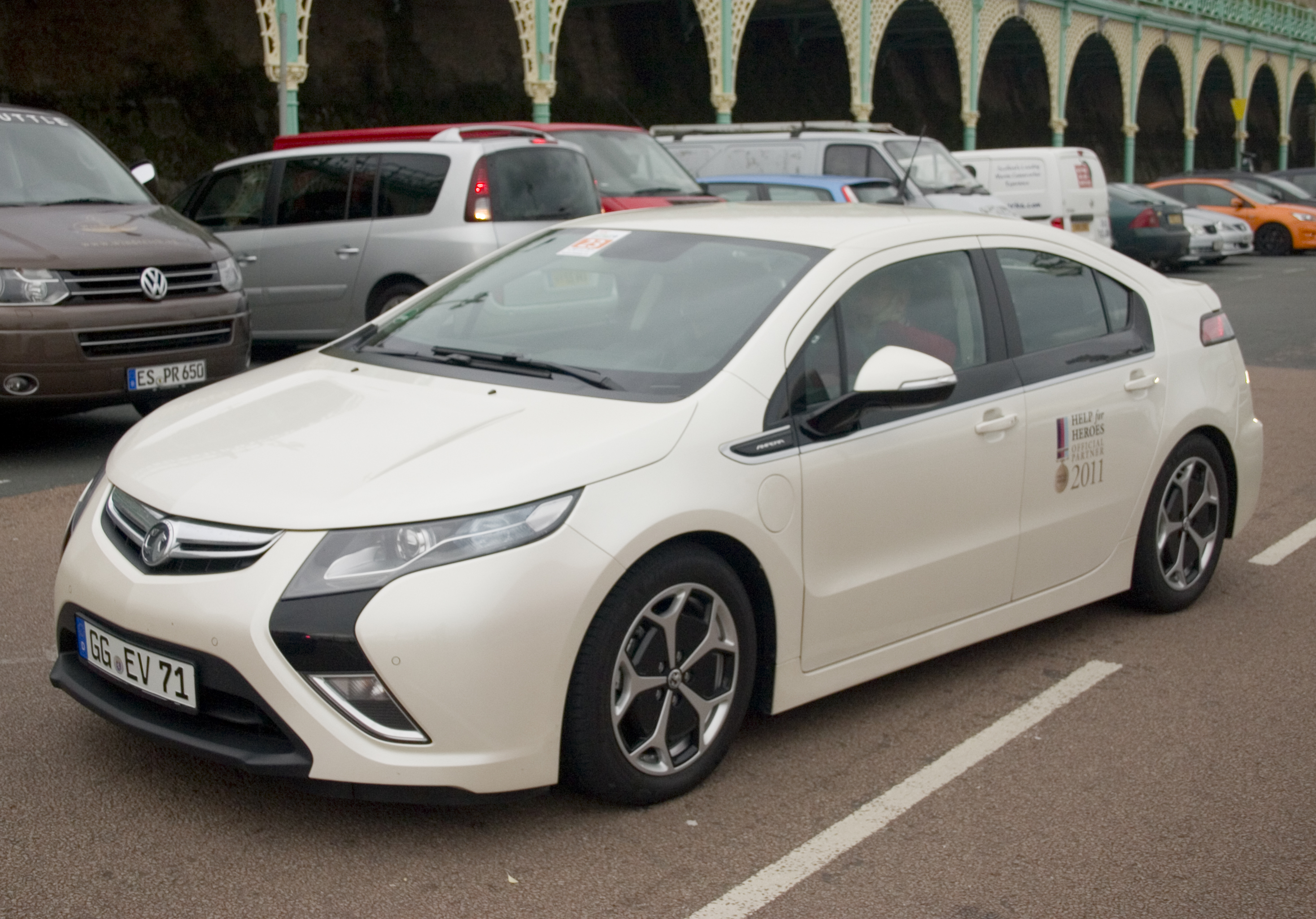 Vauxhall Ampera at the 2011 RAC Future Car Challenge, Madeira Drive in Brighton, UK